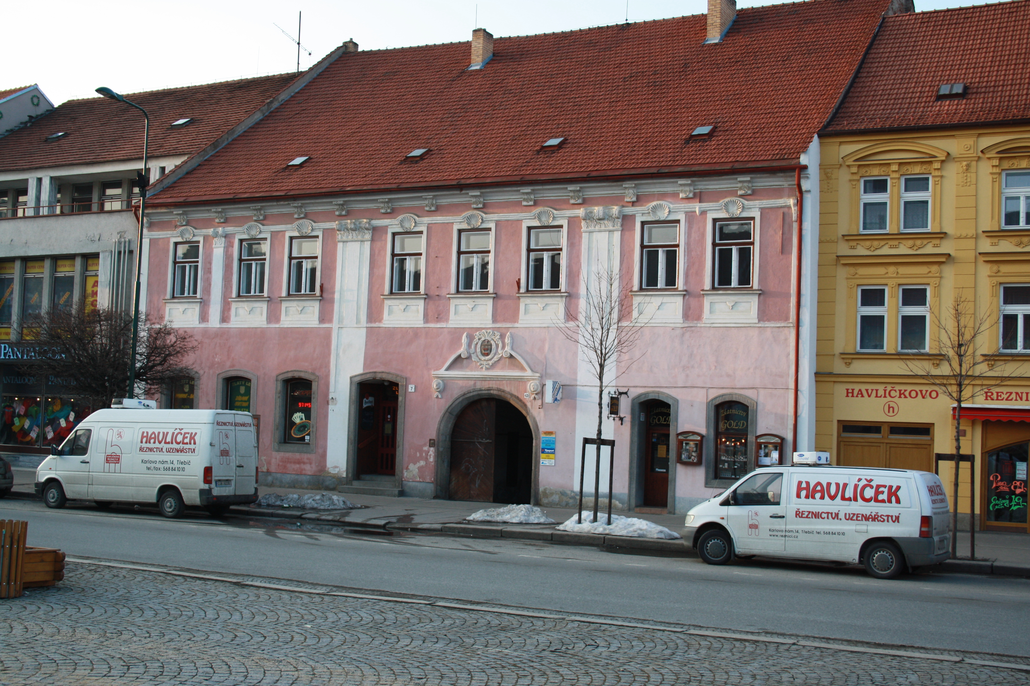 House with pub of Gold Lion in Třebíč, Czech Republic.